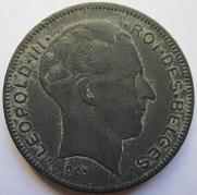 Belgium 5 francs 1941 obverse.